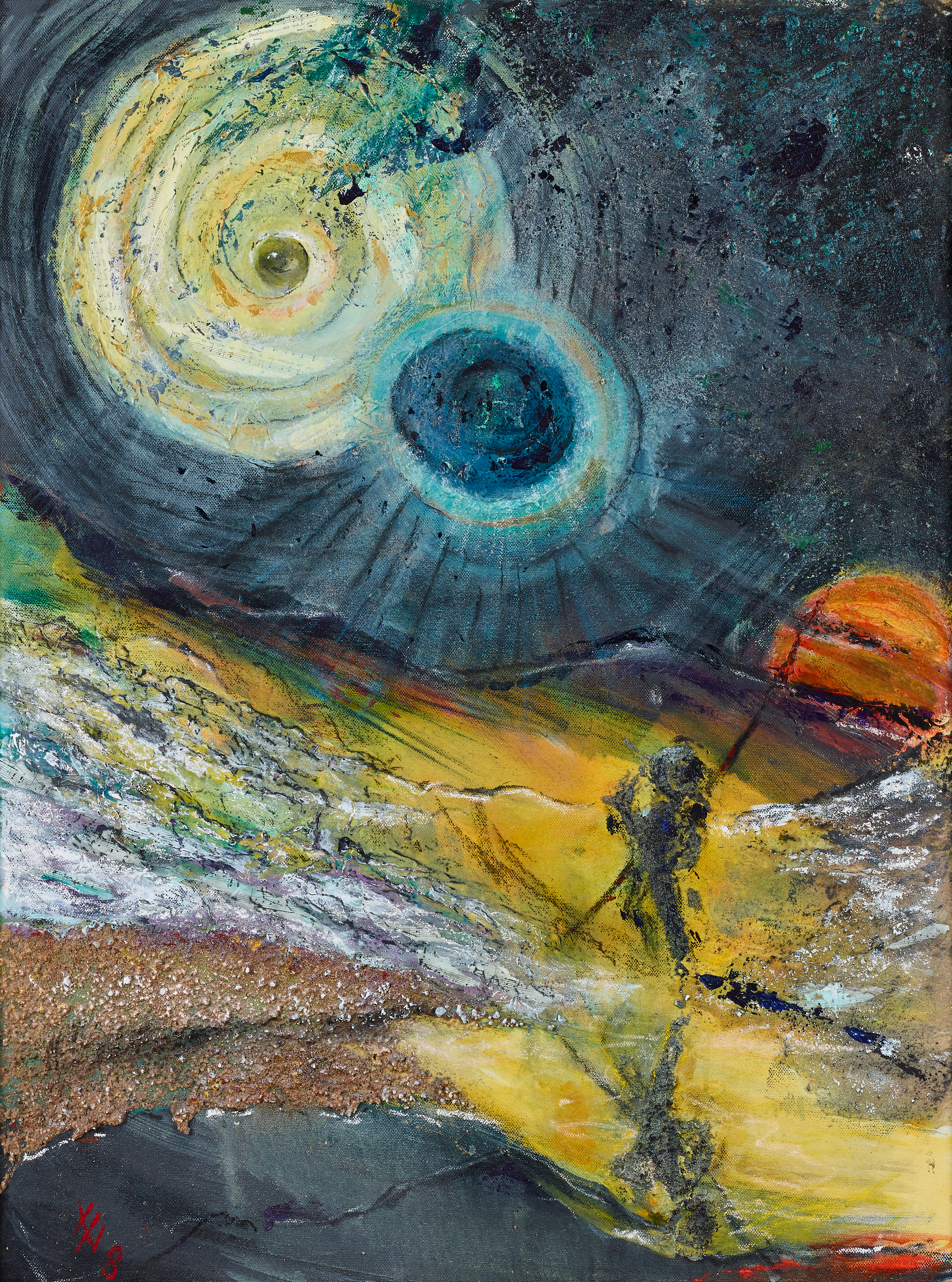 Hermann Voss, acrylic painting, titel: Drei Sonnen sah' ich am Himmel stehn, year: 2008, format: 80 x 60 cm